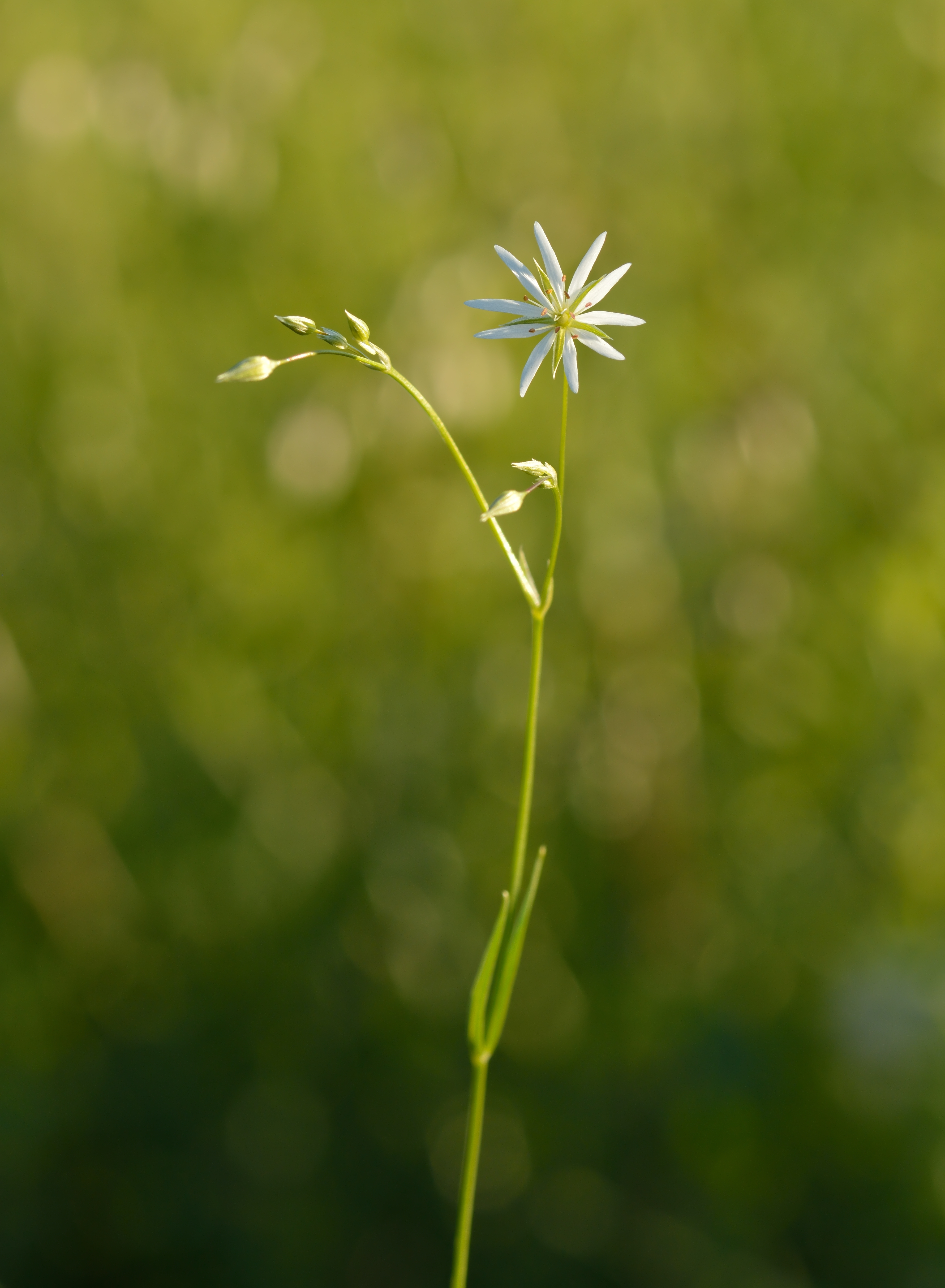 Grassleaf starwort (Stellaria graminea). Alvar (landform) in Keila, Northwestern Estonia.